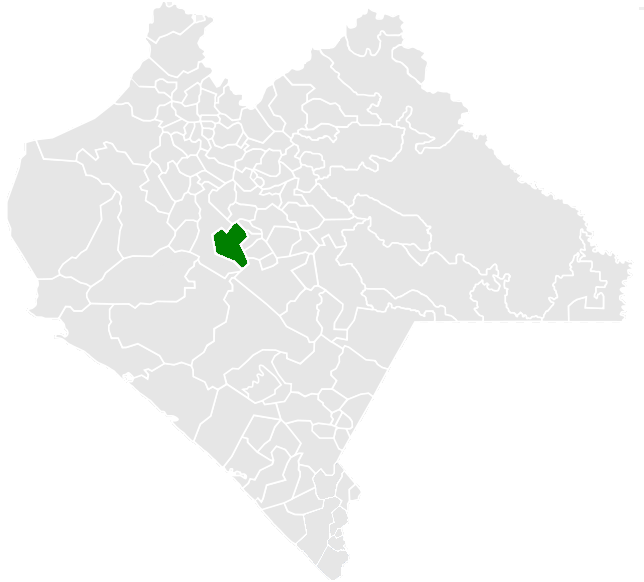 Map of the Municipalty of Acala in the State of Chiapas, México.